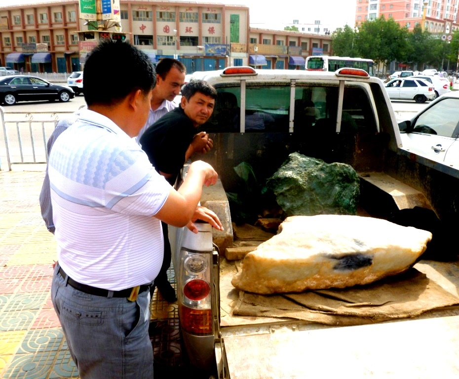 I took this photo on a trip to Khotan in 2011